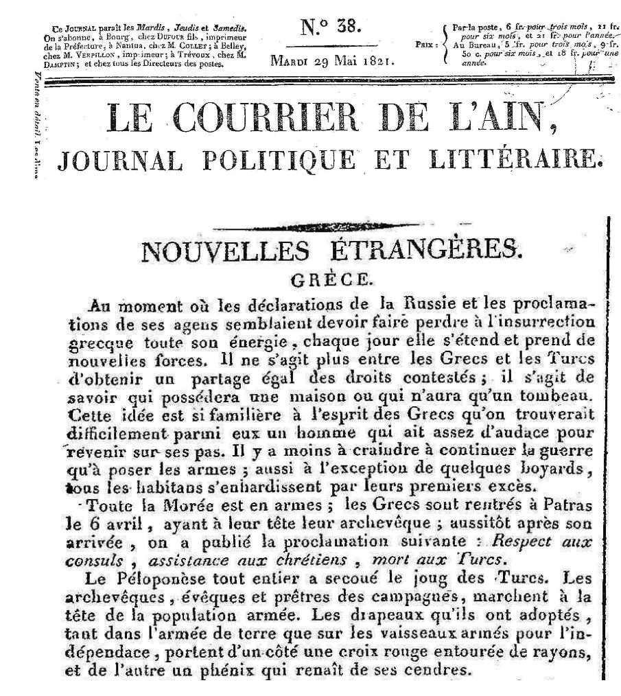 News about the outbreak of the Greek Revolution in Patras, 25 March/6 April 1821.